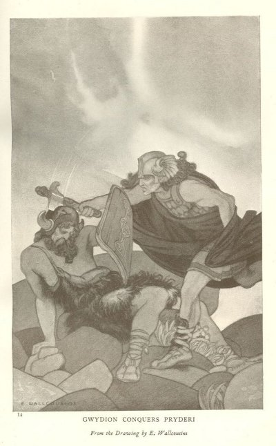 Gwydion Conquers Pryderi by E. Wallcousins. Squire, Charles (n.d.), “Chapter 20: The Victories of Light over Darkness”, in Celtic Myth And Legend Poetry And Romance, London: Gresham Publishing Company, page 310. Originally published under the title The Mythology of the British Islands, London: Blackie and Son, 1905.